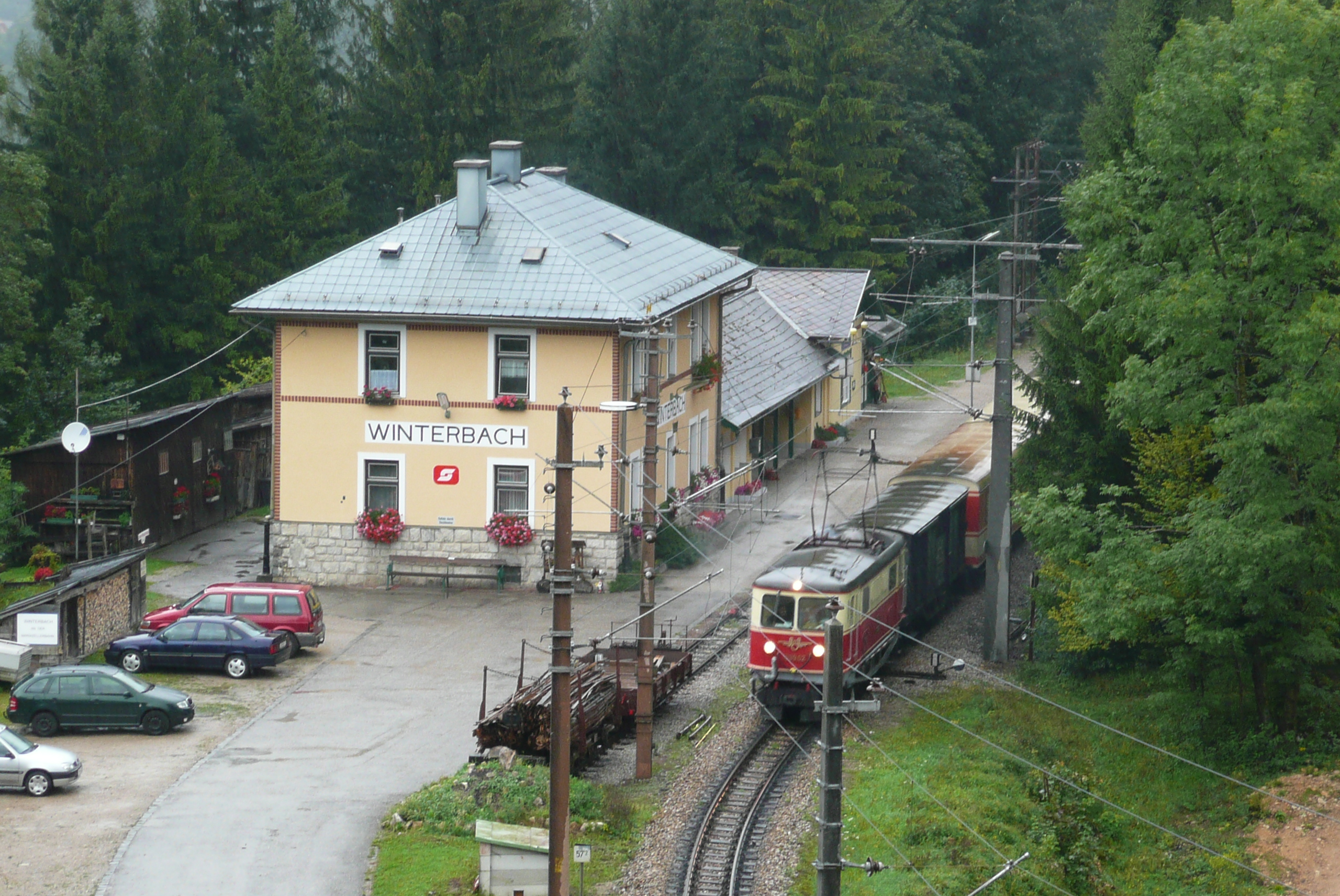 The Winterbach station, km 80 on the Mariazellerbahn, Ötscherland, Lower Austria.